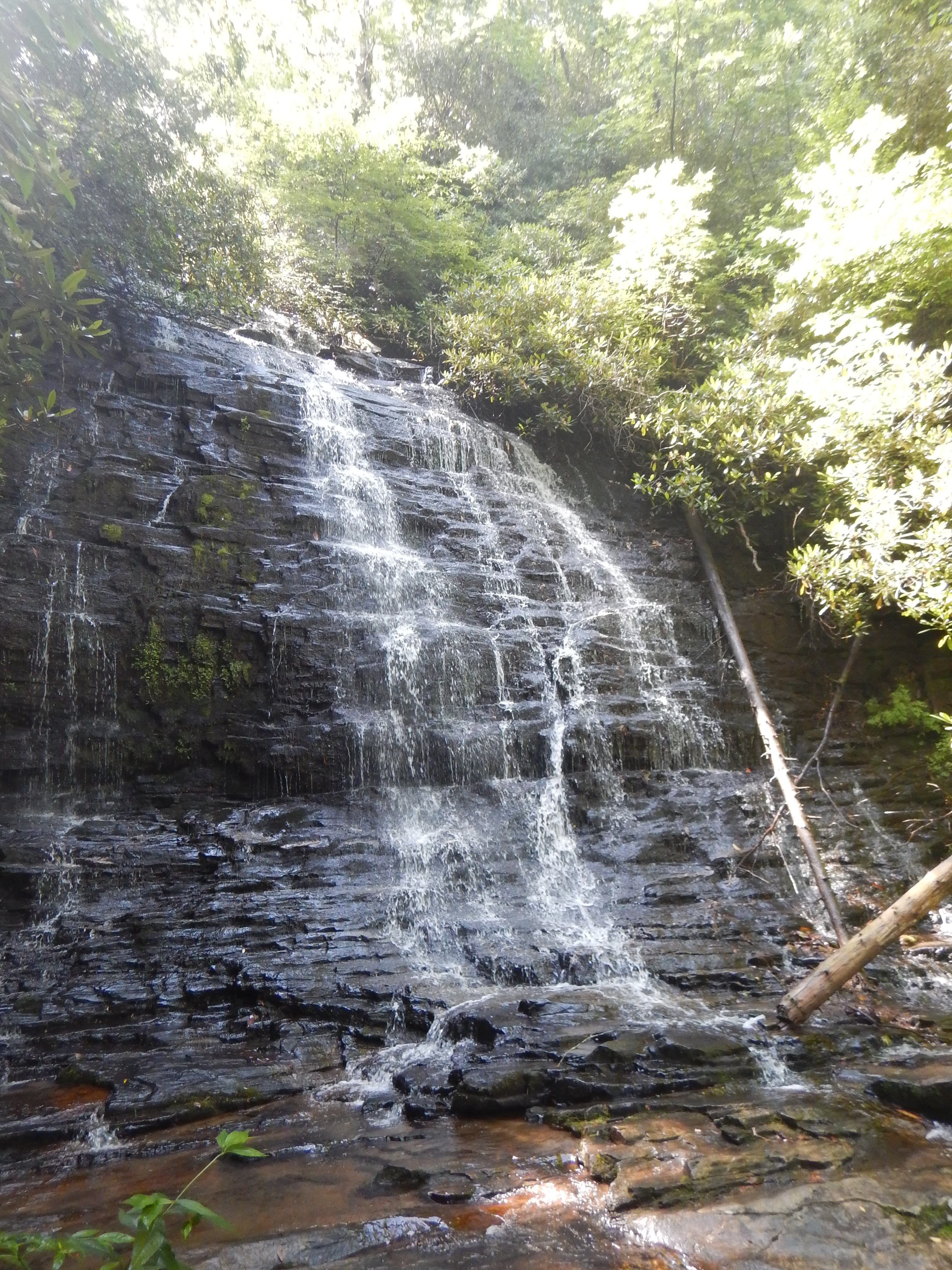 Spoonauger Falls is located off the Chattooga River Trail near Burrell's Ford Road.